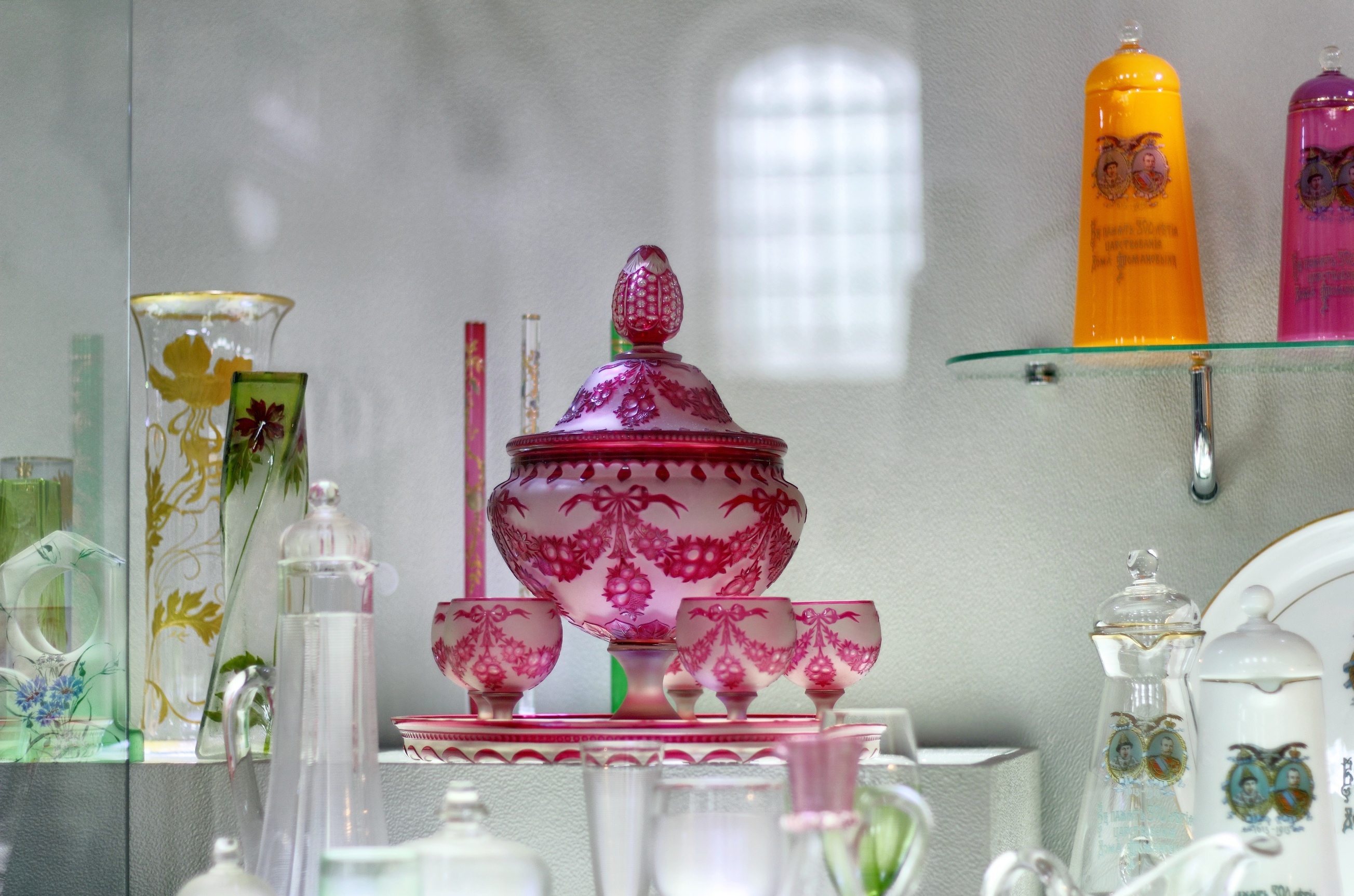 Gus-Khrustalny. Crystal Museum. The museum exposition